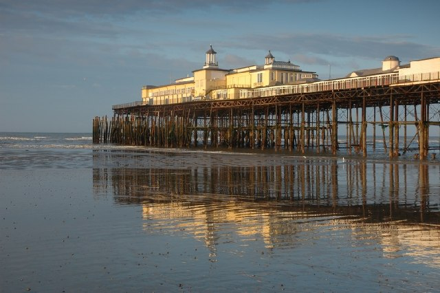 Hastings Pier. got out of bed early from the b&b to get a shot of the pier and reflection